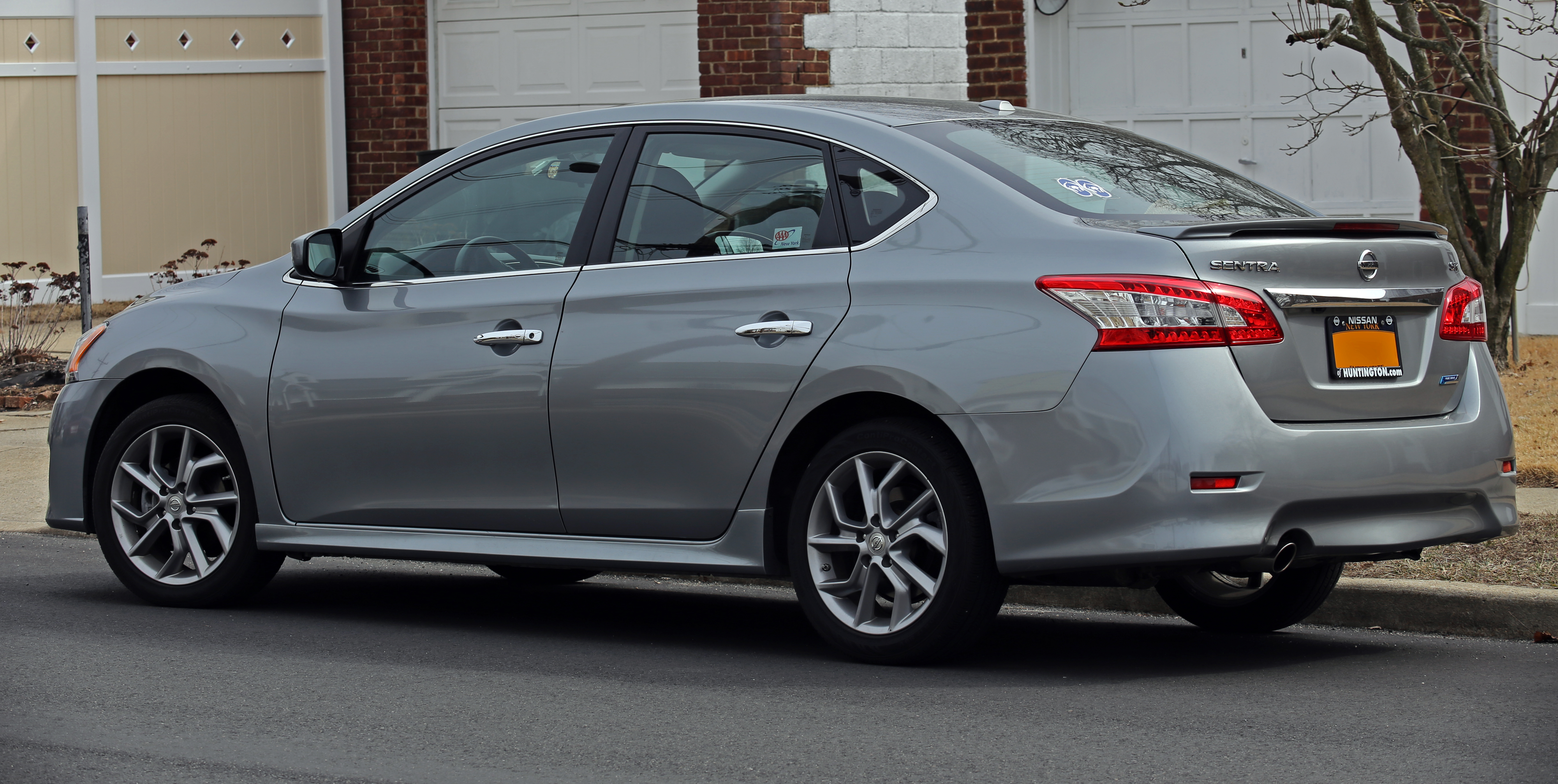 2013 Nissan Sentra SR, built in Aguascalientes, Mexico. 1.8 liter inline-four.